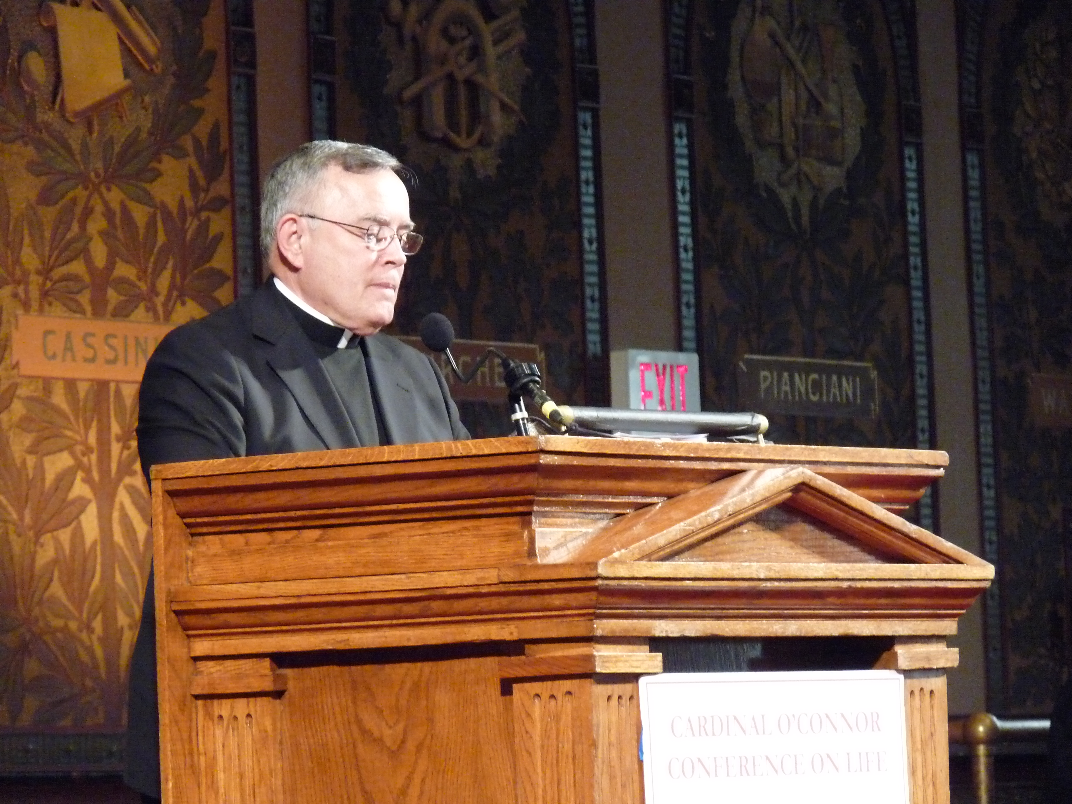 Charles Joseph Chaput, Archbishop of Philadelphia speaking at Georgetown University